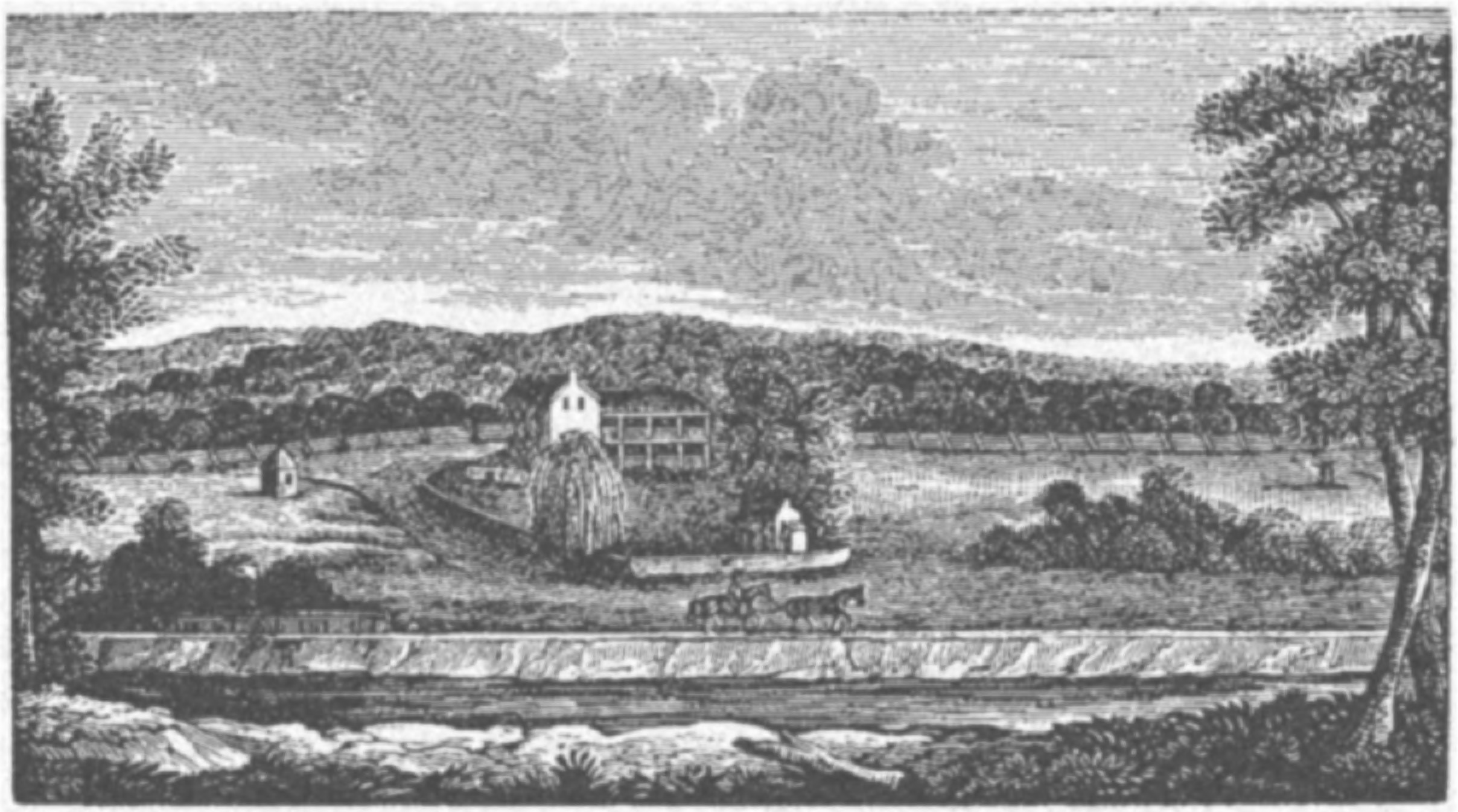 Title: Historical Collections of Ohio: An Encyclopedia of the State ; History Both General and Local, Geography with Descriptions of Its Counties, Cities and Villages, Its Agricultural, Manufacturing, Mining and Business Development, Sketches of Eminent and Interesting Characters, Etc., with Notes of a Tour over It in 1886 V 2 Year: 1891 (1890s) Authors: Howe, Henry, 1816-1893 Subjects: Ohio -- Biography Ohio -- History Ohio -- Local History Ohio -- Description and travel Publisher: Columbus : Henry Howe & Son View Book Page: Book Viewer About This Book: Catalog Entry View All Images: All Images From Book Click here to view book online to see this illustration in context in a browseable online version of this book. Text Appearing Before Image: Gale, Photo., 1886.The Wedded Trees of the Gkeat Miami. COL. JOHN JOHNSTON. Text Appearing After Image: Drawn by limnj Howe, in 1846. Upper Piqua. Seat of Col. John Johnston, long an Indian Agent. This is a spot of much historic interest. 523 MIAMI COUNTY. 525 as one would put a board through an uprightslat fence. My feet sank a foot or so lowerthan the ground outside. I then stood up-right, and the top of the slit came up toabout my waist; but little light came inthrough it. Above me the hole went up in-definitely. The walls were covered withpendent decaying wood. The place wasgloomy and musty. I could see but little,and was glad to quickly get out, feeling asthough I could not commend it for any per-manent habitation. Aged trees, like the sycamore here, are aptto be hollow within. This seems to make nodifference with their duration of life. Thefamous Charter Oak lived about 150 yearsafter the secretion of the charter within, andin its last years it held all the members oftwo fire companies at once. When it wasblown down in a gale about 1854, the bells ofHartford tolled and a military